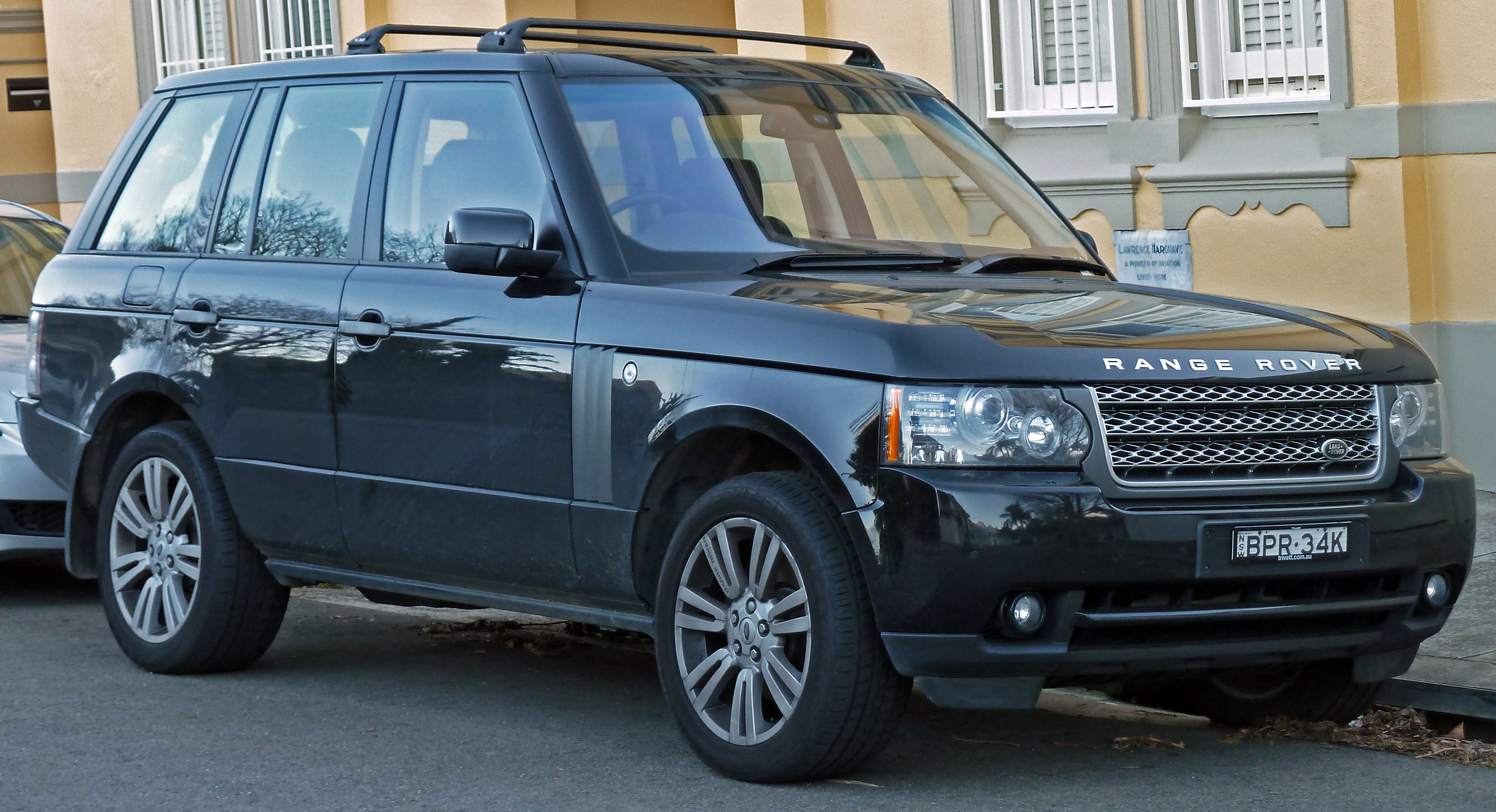 2010 Land Rover Range Rover Vogue (L322 10MY) TDV8 Luxury wagon. Photographed in Point Piper, New South Wales, Australia.